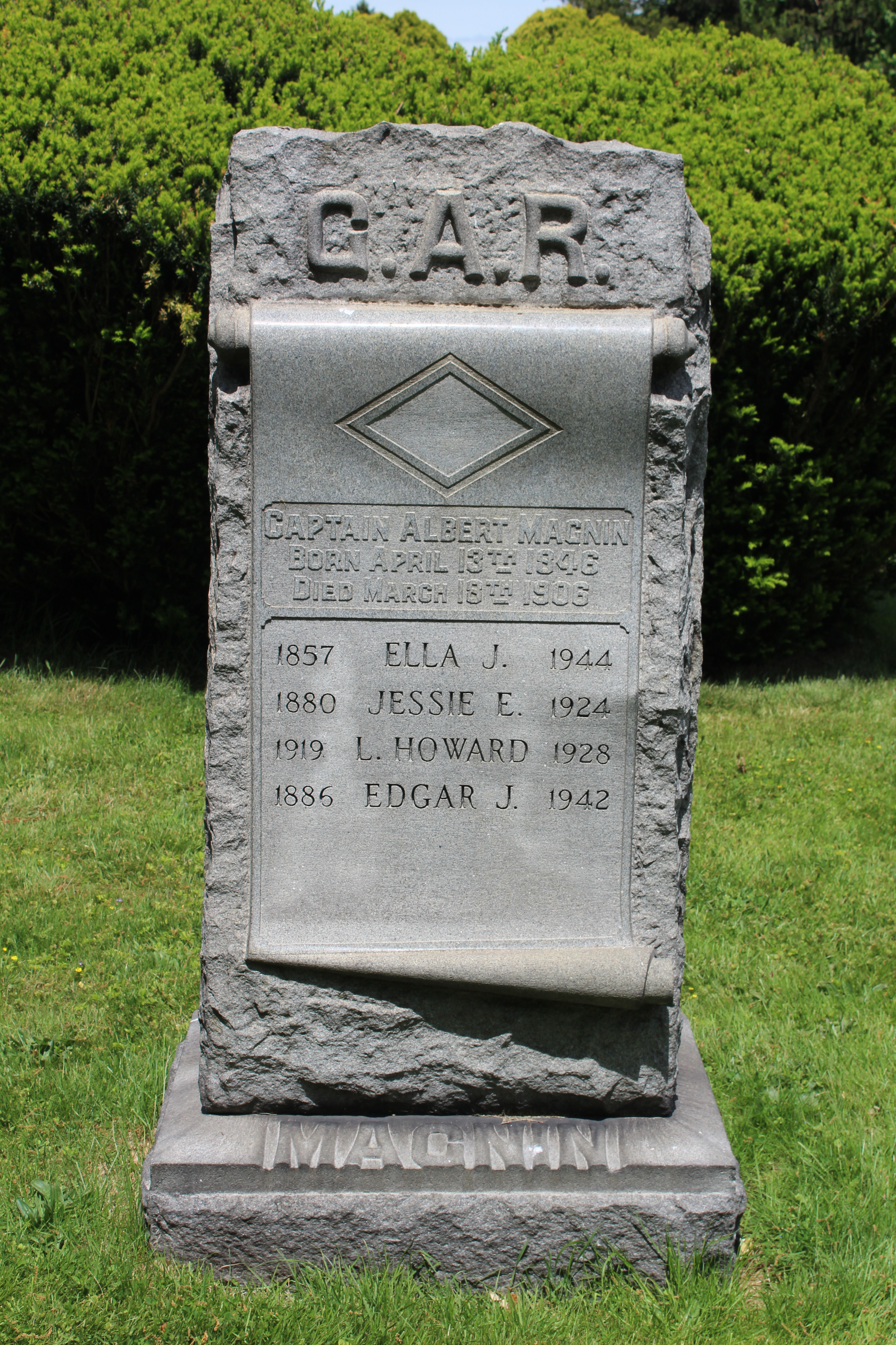 Albert Magnin Gravestone in Arlington Cemetery, Drexel Hill, Pennsylvania. Photo taken May 2020.